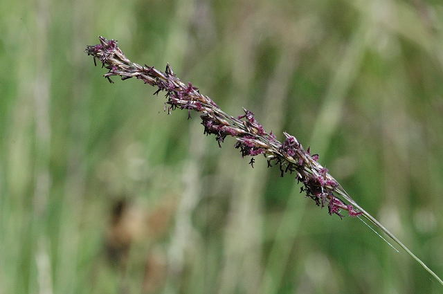 Picture taken in Commanster, Belgian High Ardennes . Species: Molinia caerulea